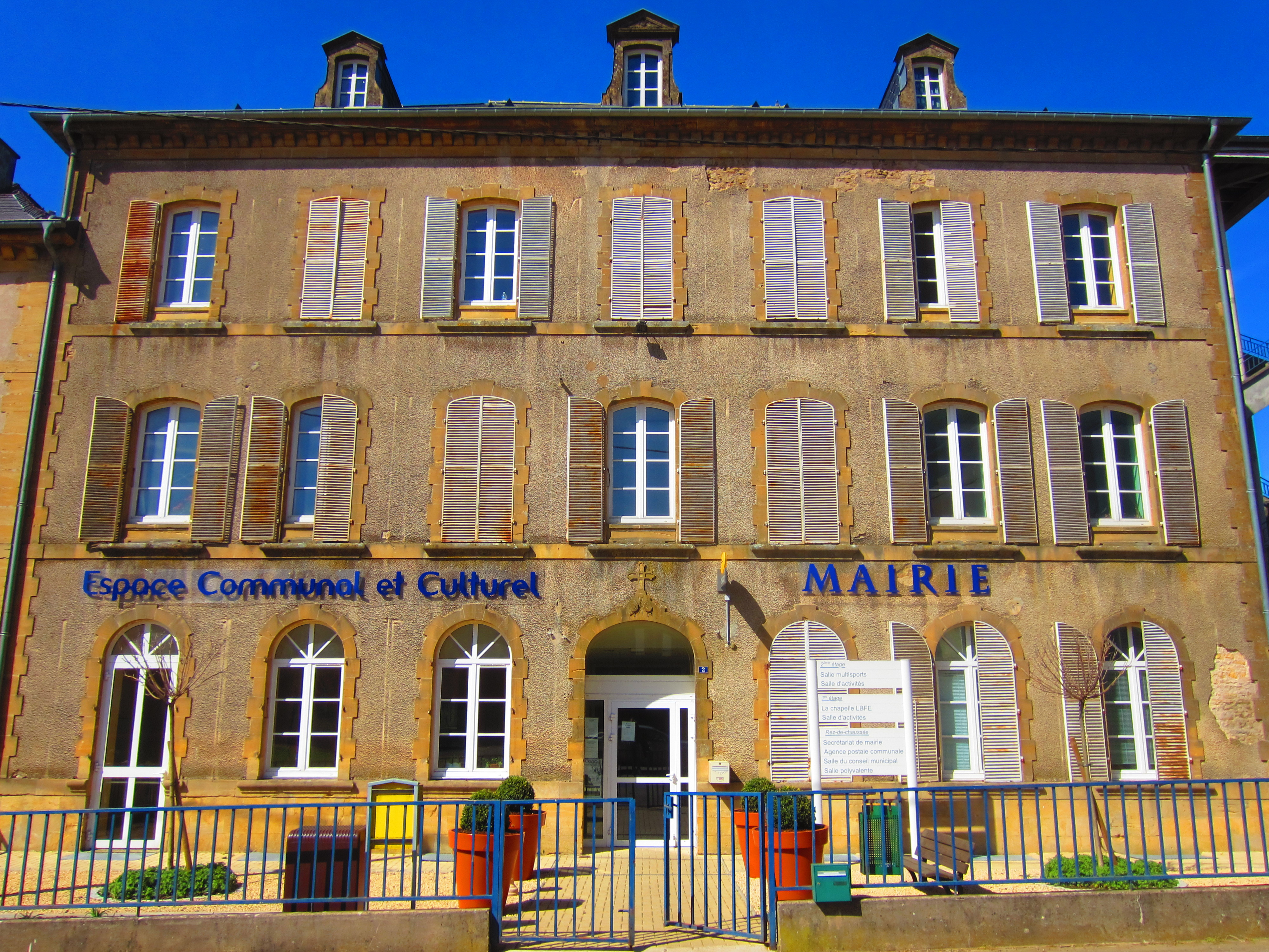 Fillieres town council